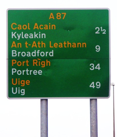 Bilingual Gaelic-English road sign